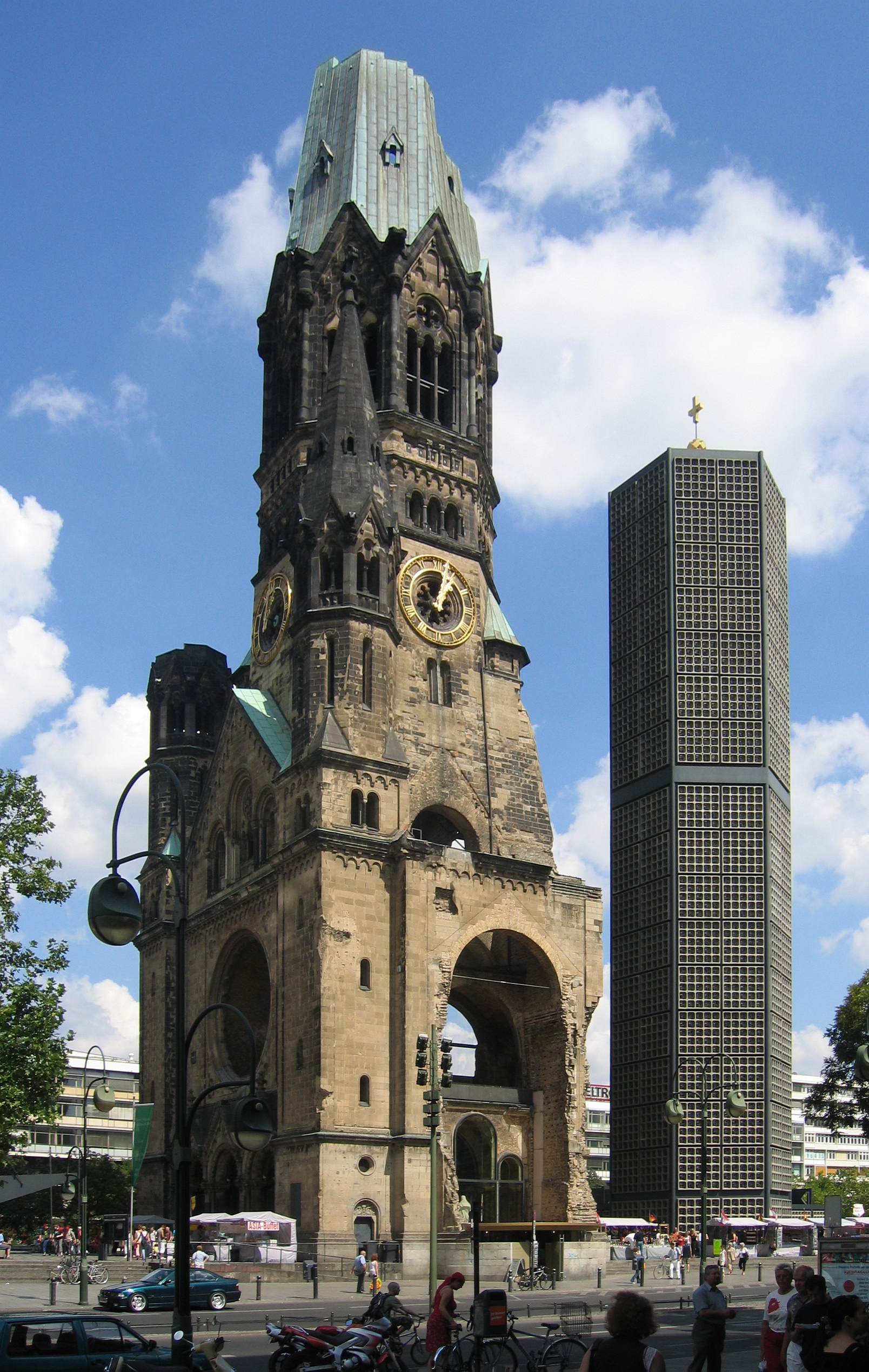 the Kaiser Wilhelm Memorial Church in Berlin-Charlottenburg.